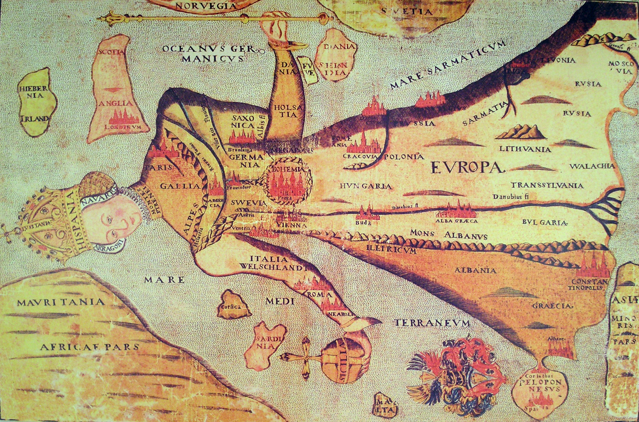 Old map of Europe in the shape of a queen holding scepter and orb, with Portugal as her crown, Spain as her face, France as her below-the-neck area, lower Germany and Denmark as her left arm, Italy as her right arm (with Sicily as orb), and the rest of central and eastern Europe as the dress covering her torso and legs.